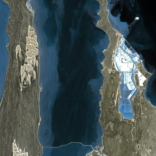 Useless Inlet photographed by the SPOT satellite